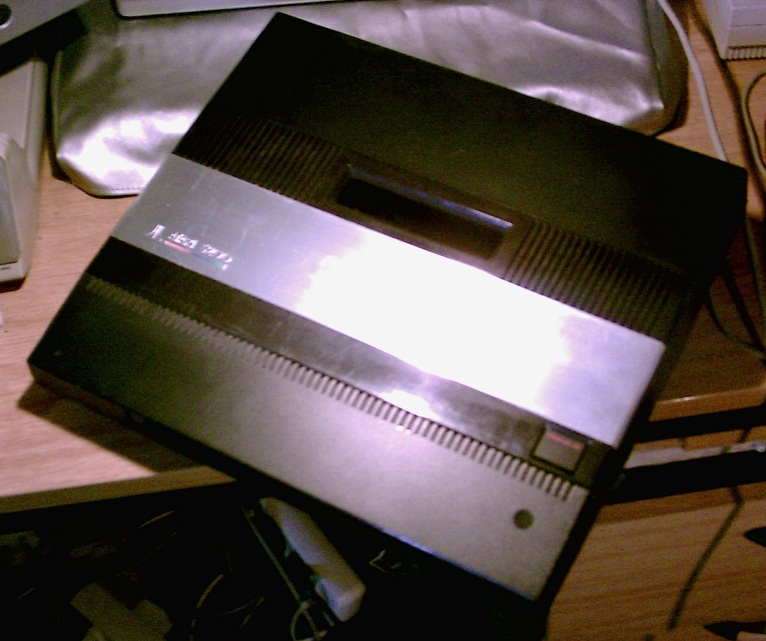 An Atari 5200 video game console.